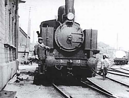 Russian tank locomotive Yer' (Ь) series, type i2, 0-4-0, constructed in Kolomna